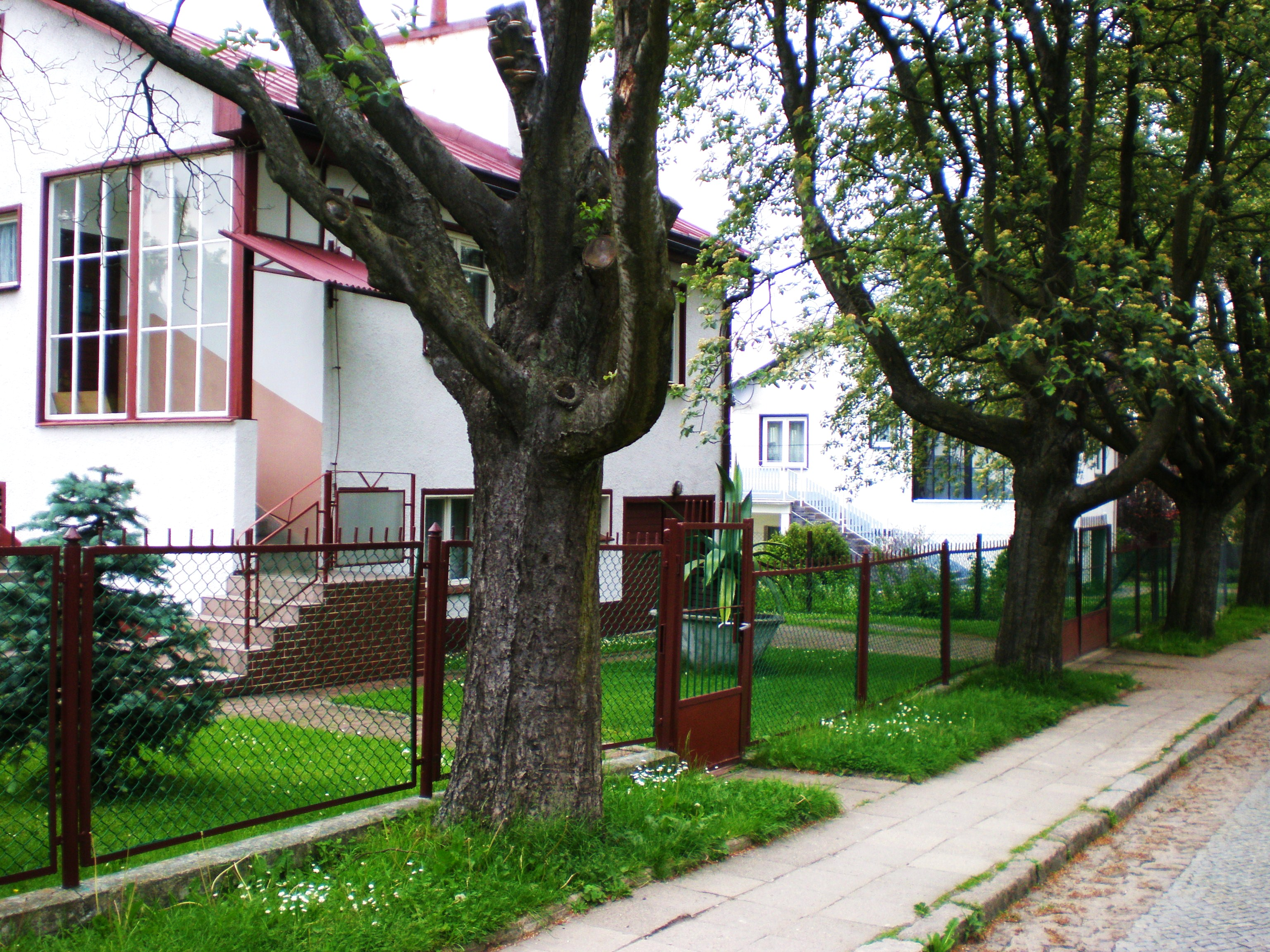 Janowice Wielkie - Wojsko Polskie Street